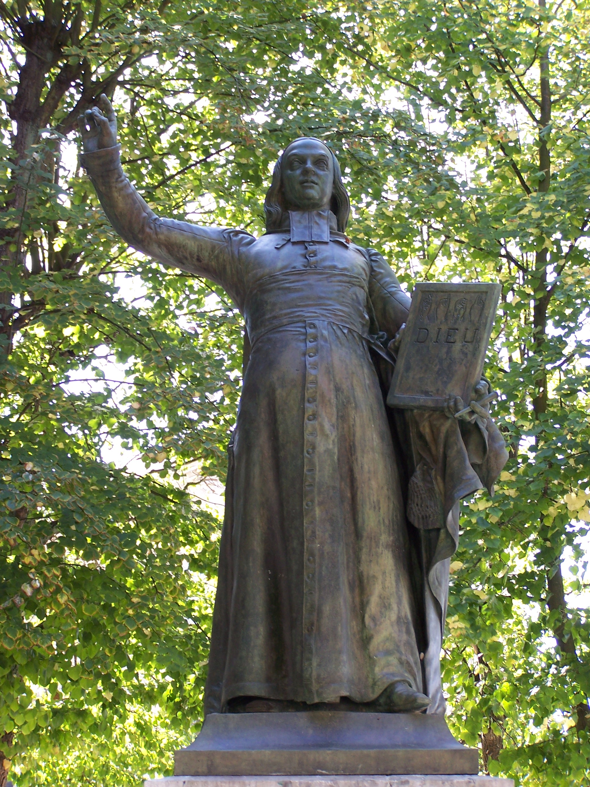 Statue of the Abbé de l'Épée in Versailles (Yvelines, France)